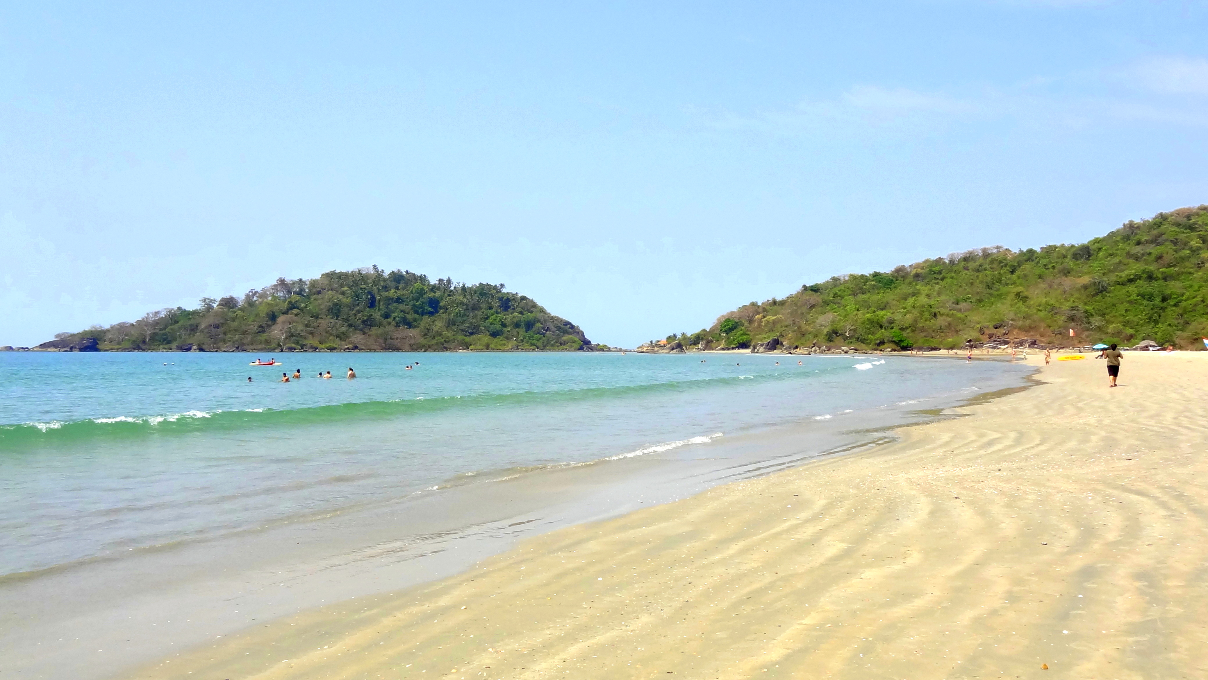 Goa beautiful beach